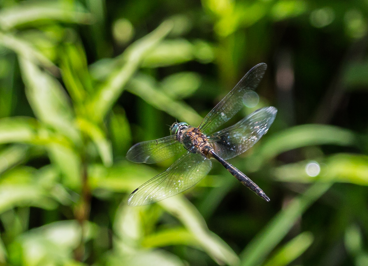 A male Somatochlora flavomaculata patrolling above a drainage ditch at Ljubljana marsh near Sinja Gorica, Slovenia.